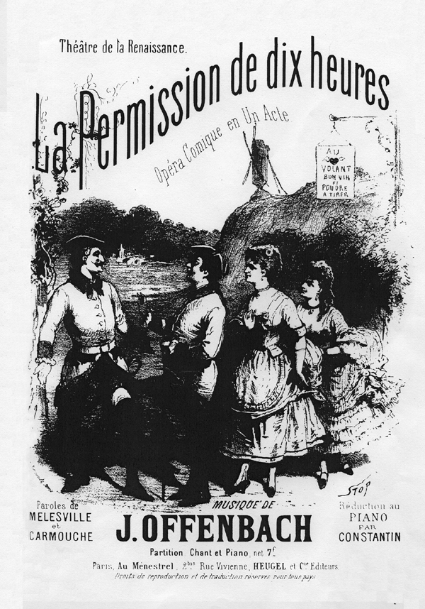 Front page of vocal score of Jacques Offenbach's opéra-comique "La permission de dix heures", published 1873